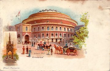 Accidentally deleted. A postcard from 1903.